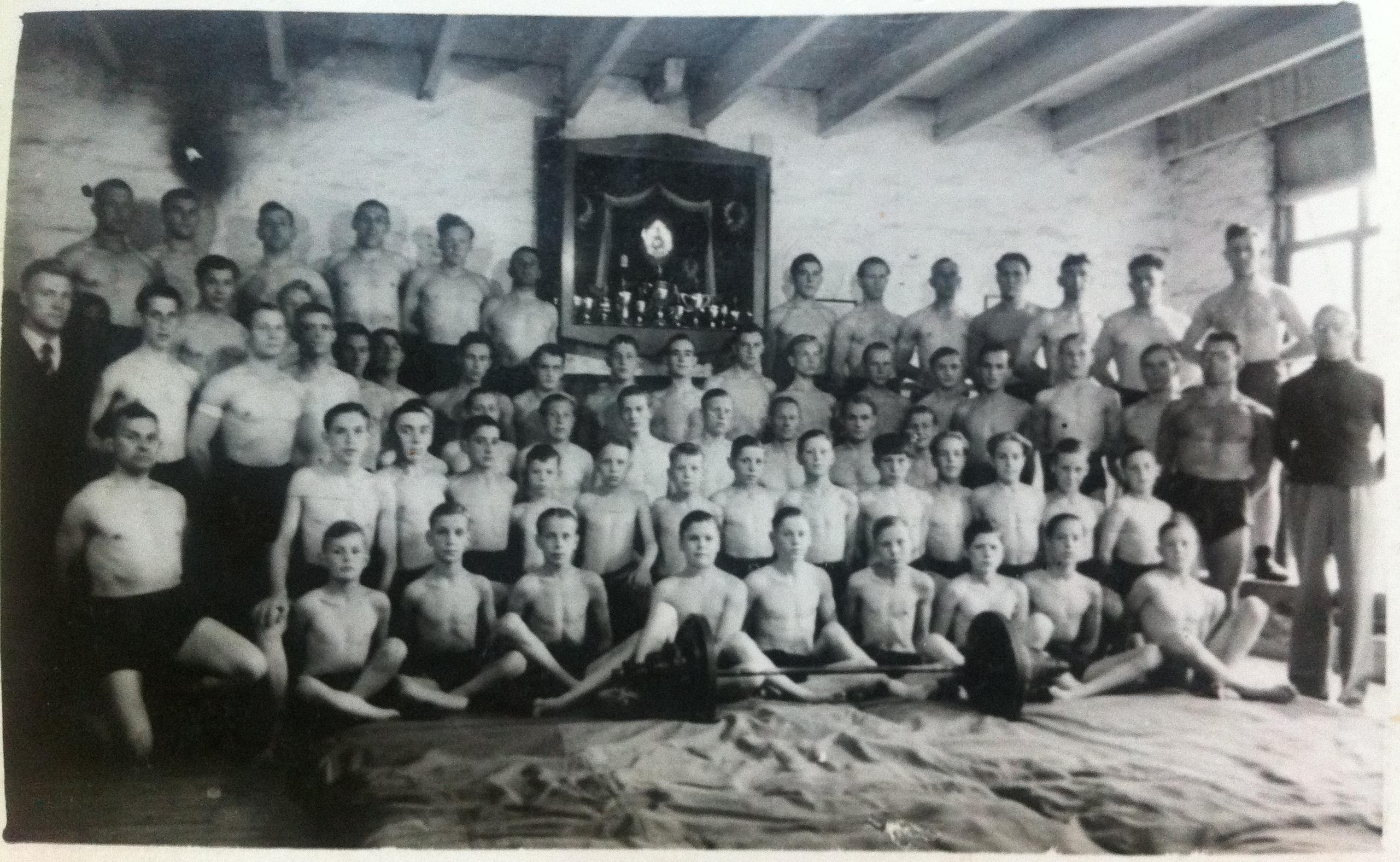 De Halter Wrestling Association at Lange Nieuwstraat in Utrecht in the Netherlands (1943)